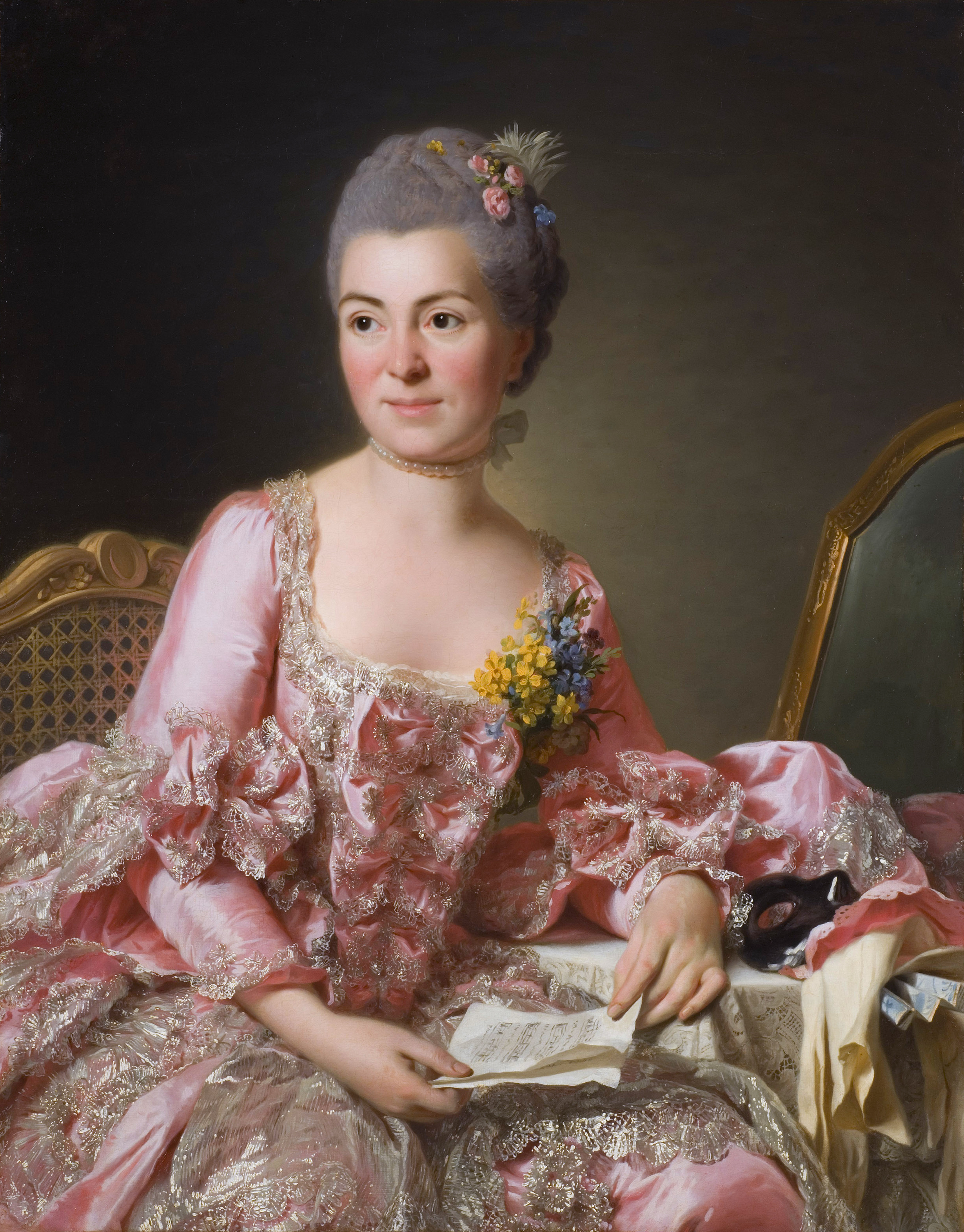 The artist Marie Suzanne Giroust (wife of Alexander Roslin)